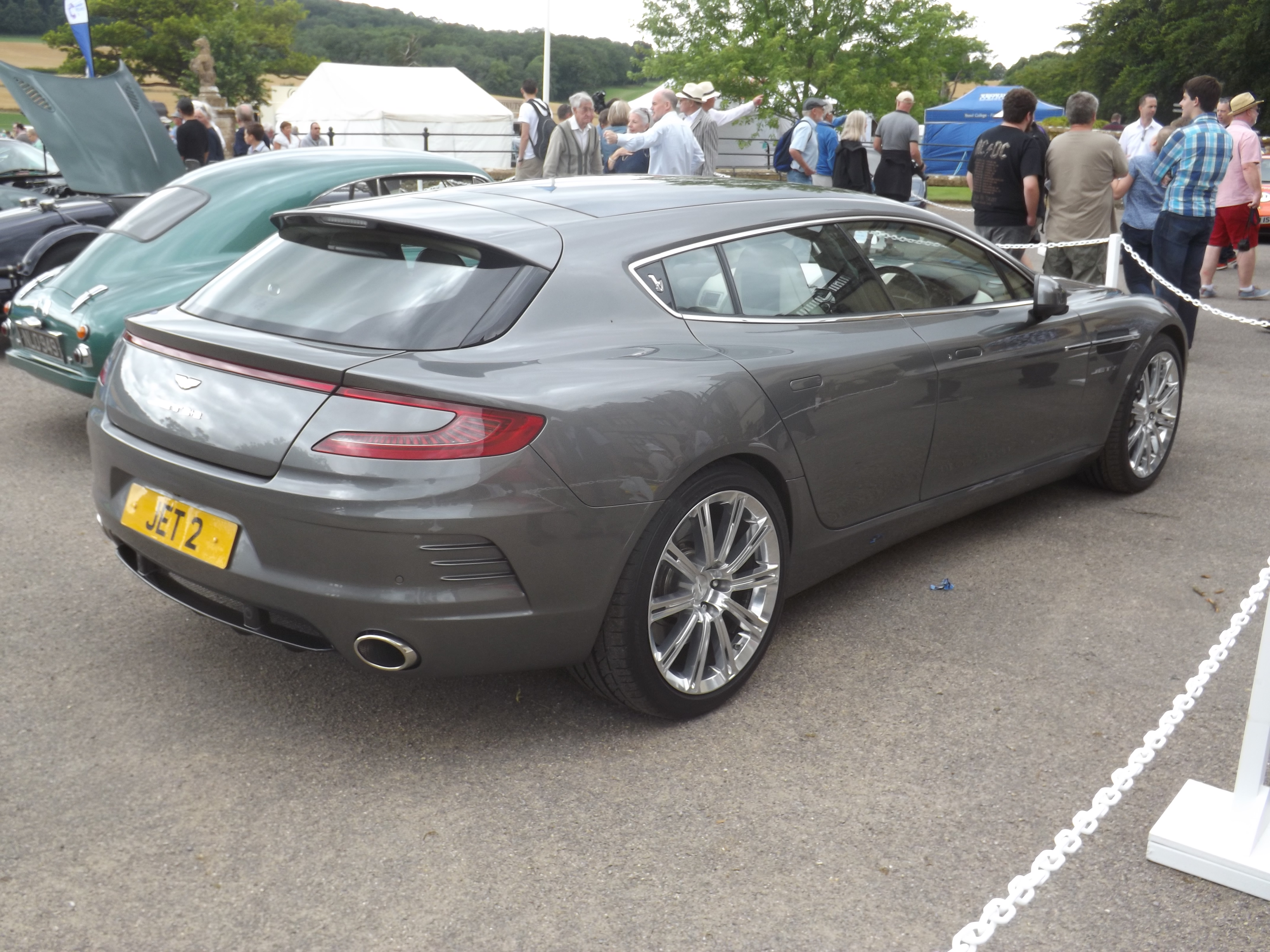 Classics at the Castle, Sherborne, Sunday 19th July 2015